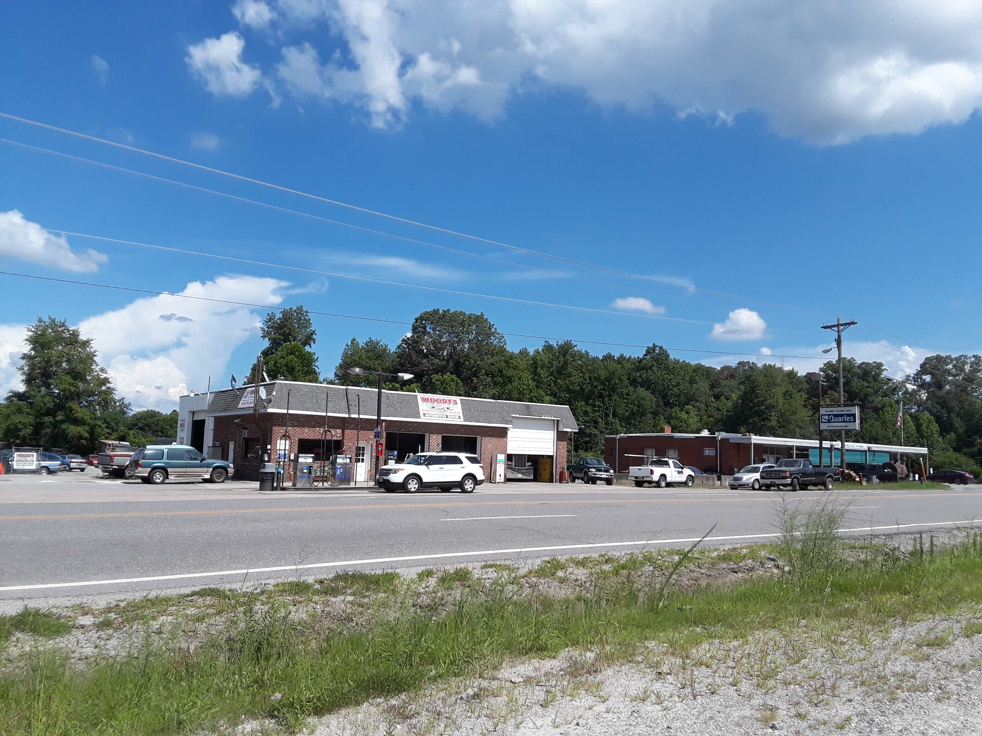 A no-frills gas station combined with an auto and truck repair shop, next door to a deli/grocery store operating out of a post office along US 1 on the southeast corner of Virginia Secondary Route 688 (Hanover County) in Doswell, Virginia.